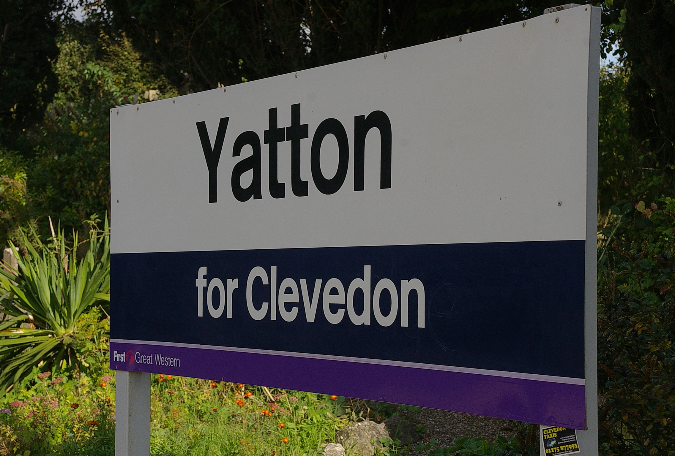 The station board "Yatton for Clevedon" at Yatton railway station.